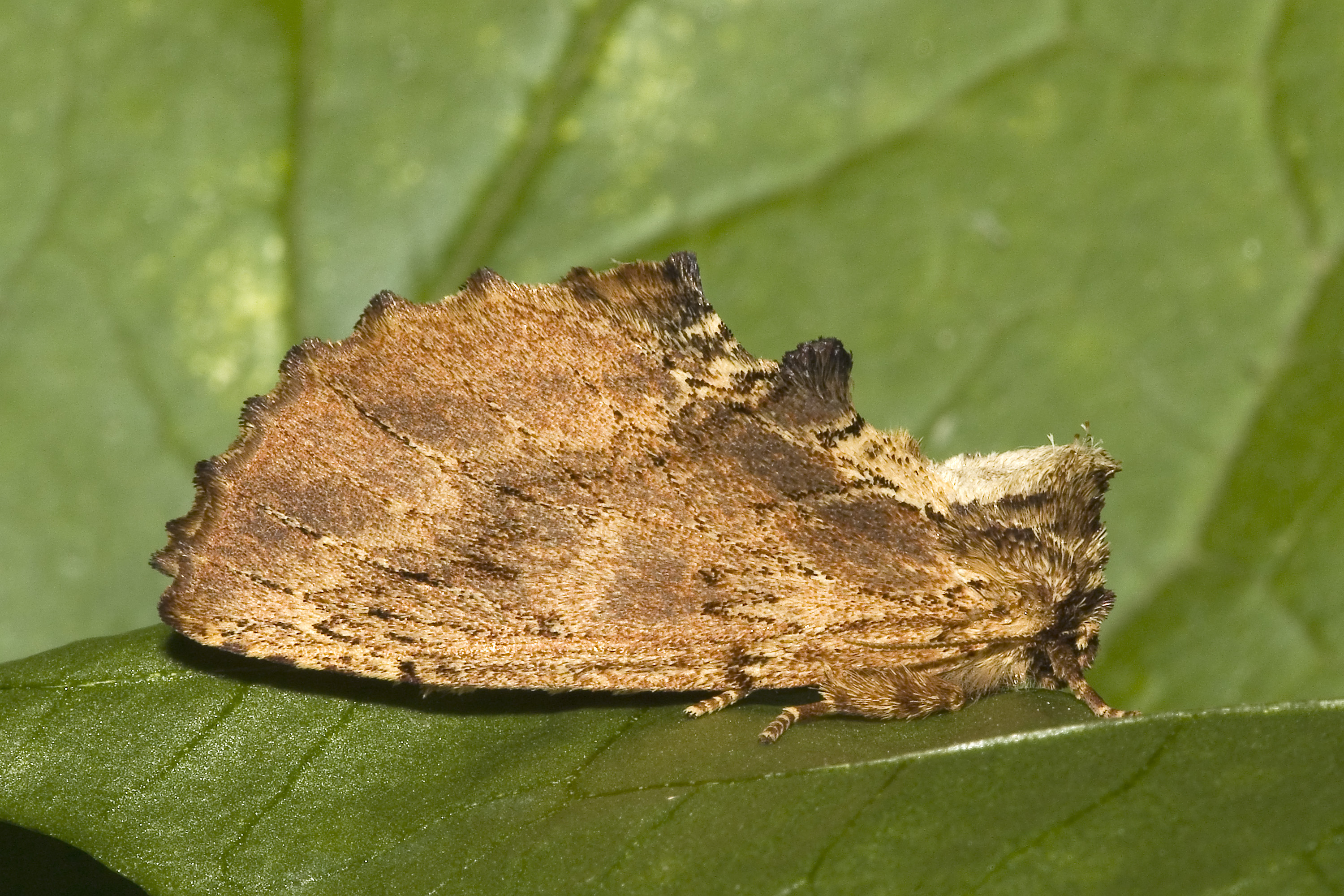 Coxcomb Prominent